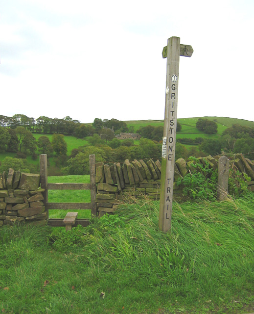 Stile on the Gritstone Trail The Gritstone Trail crosses the Buxton New Road (A537) and turns north east. Hordern Farm in the distance is in SJ9574